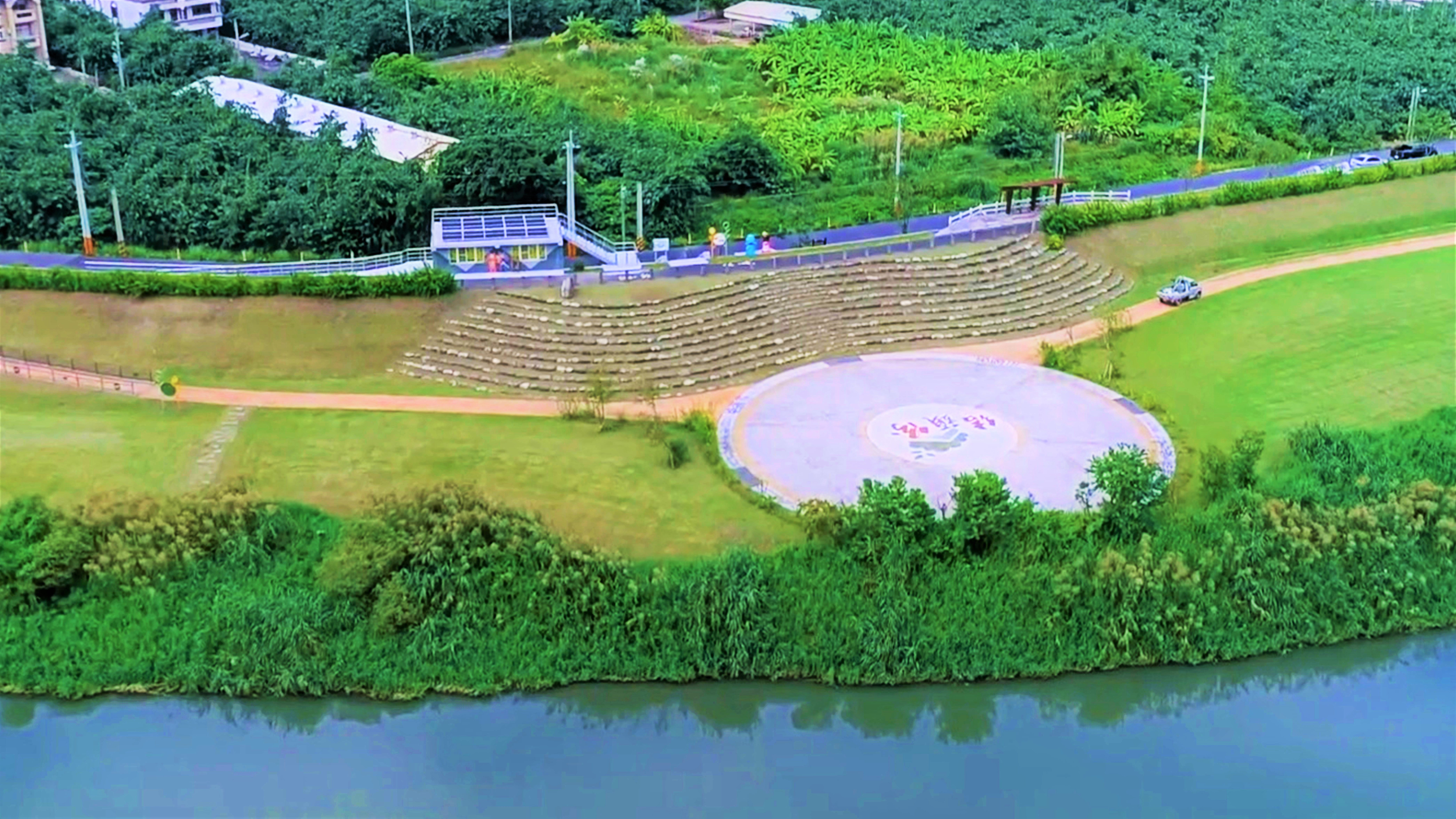 Jie tou fen culture square